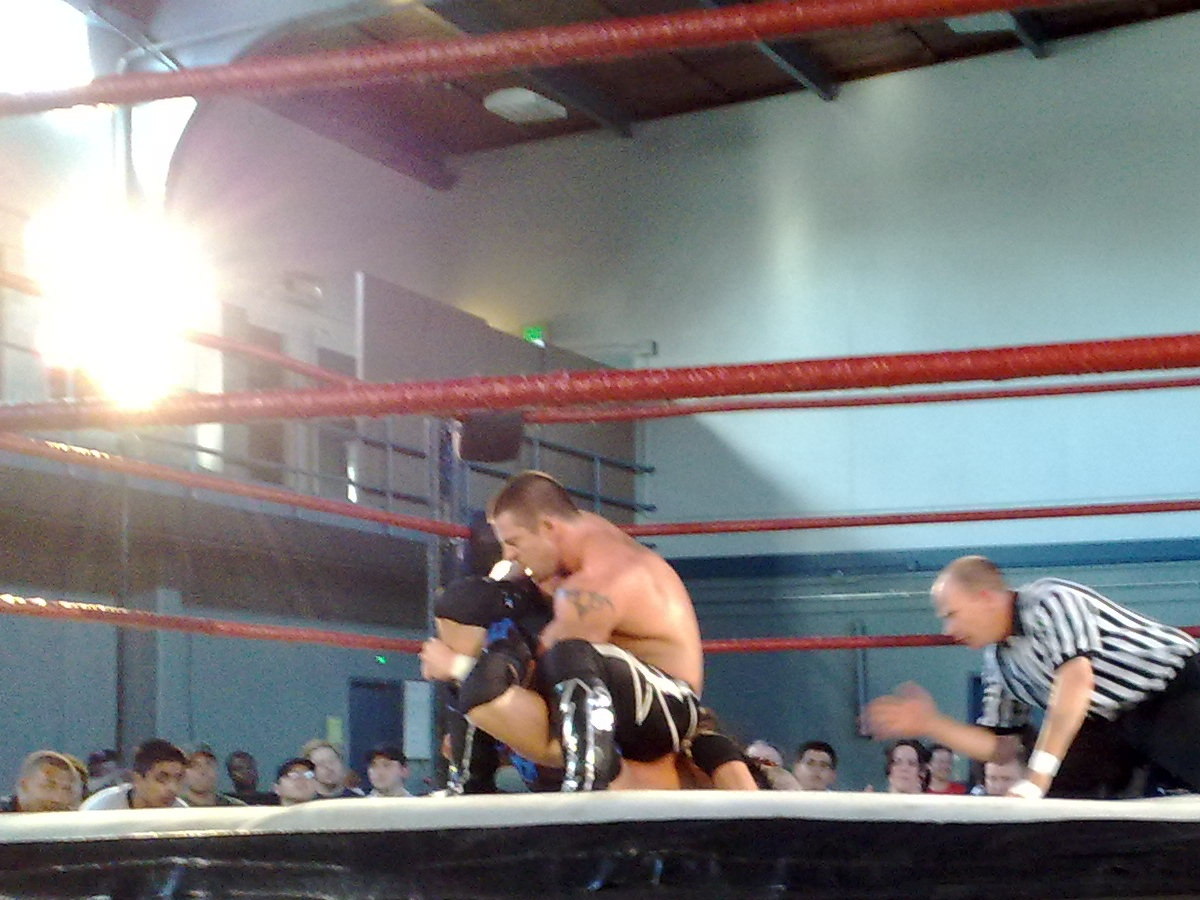 Professional wrestler Davey Richards performing a cloverleaf submission hold on Austin Aries at Pro Wrestling Guerrilla's DDT4 Night 2 show on May 18, 2008.